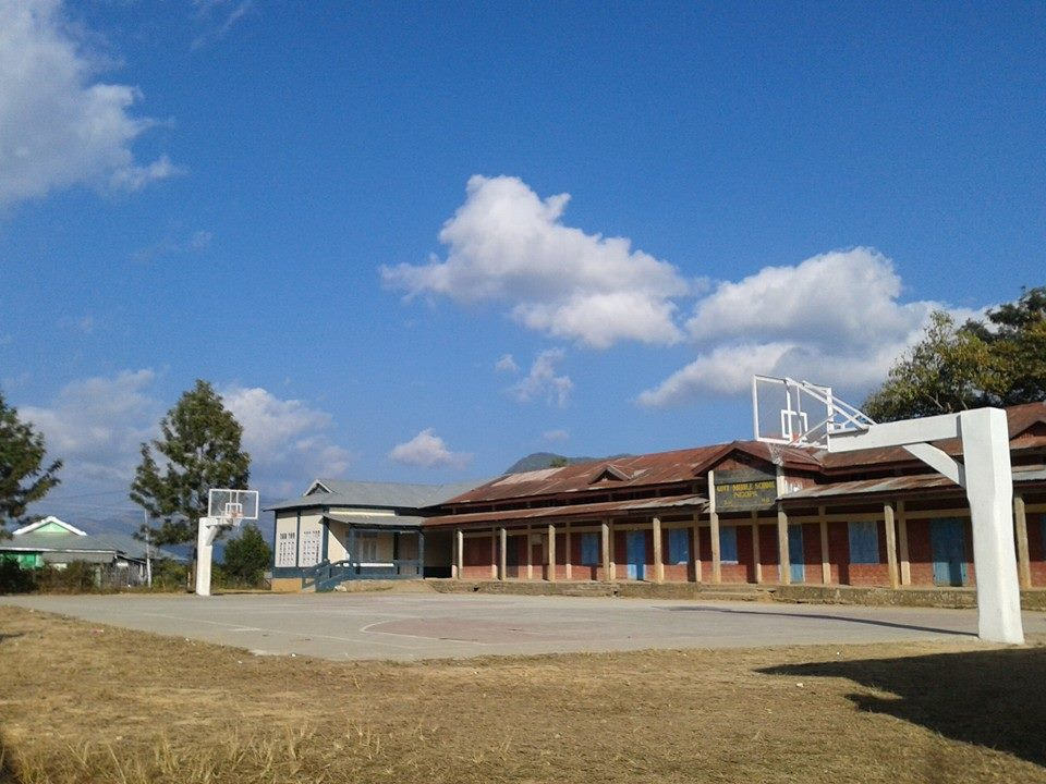 Middle School I Ngopa